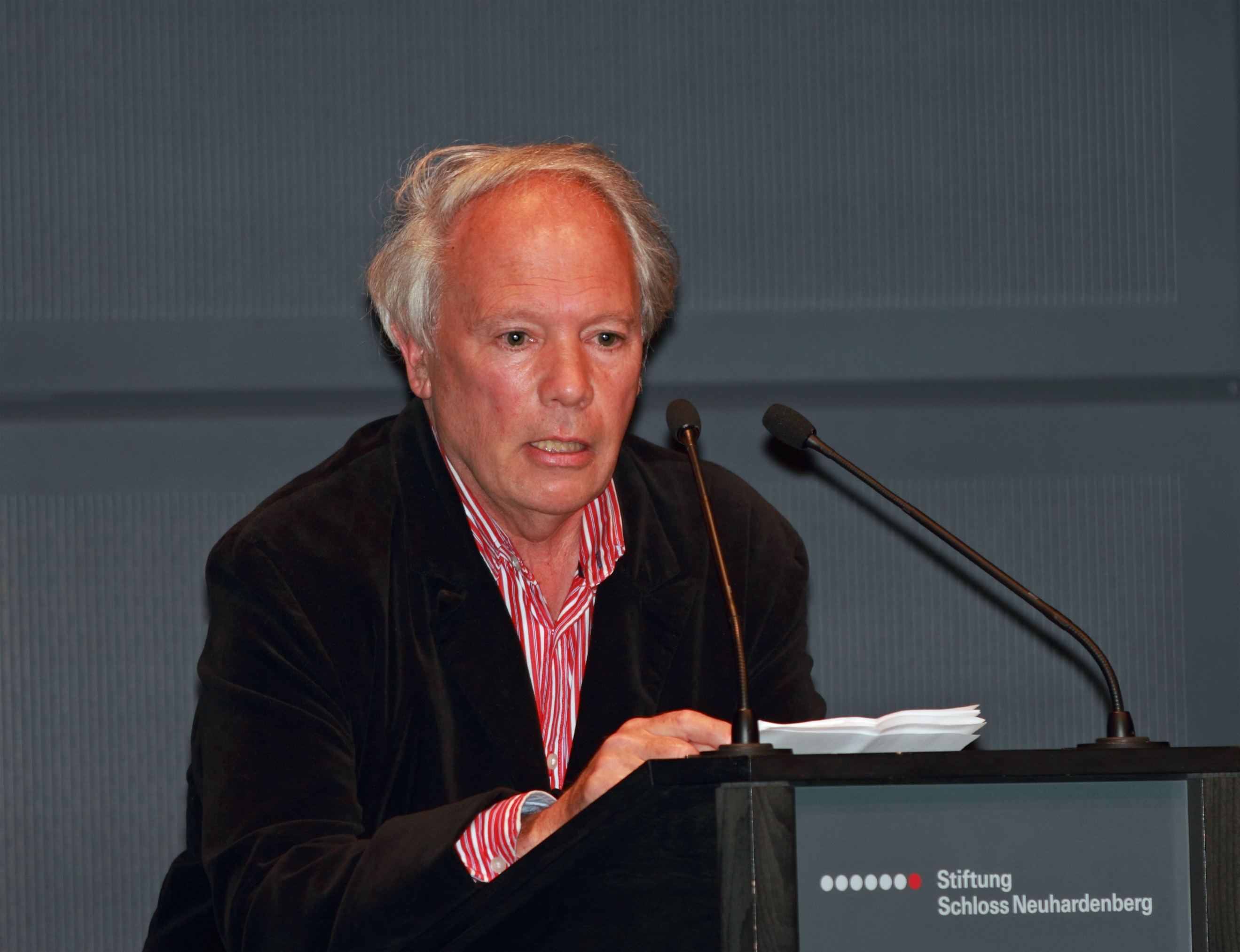 Nicolas Werth, a French historian